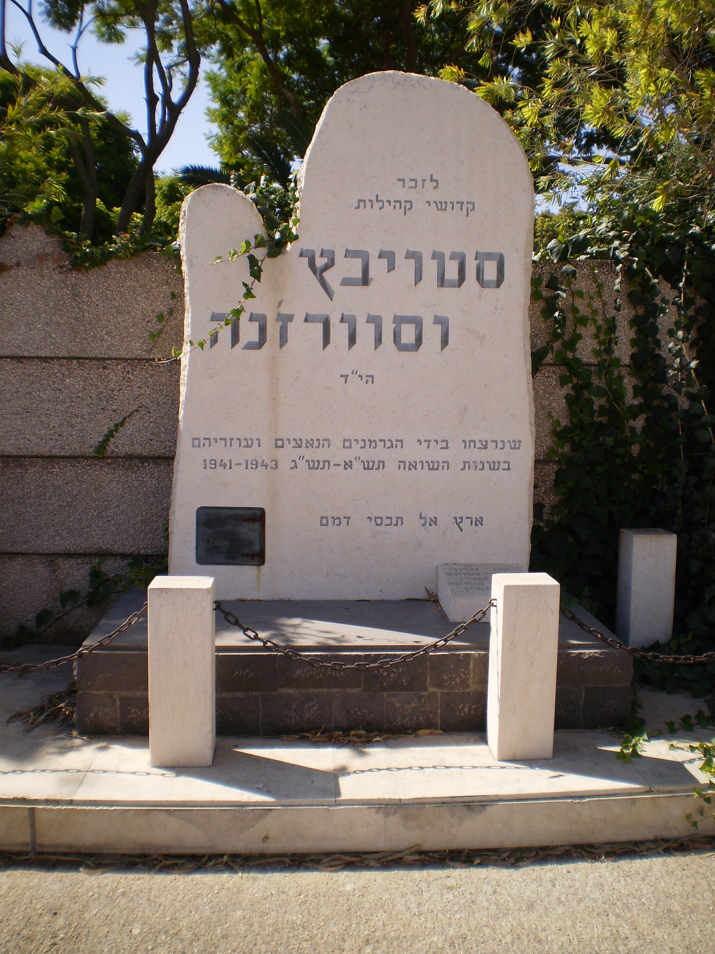 Stoŭbcy and Świerżeń Jewery Holocaust memorial at Holon Cemetery